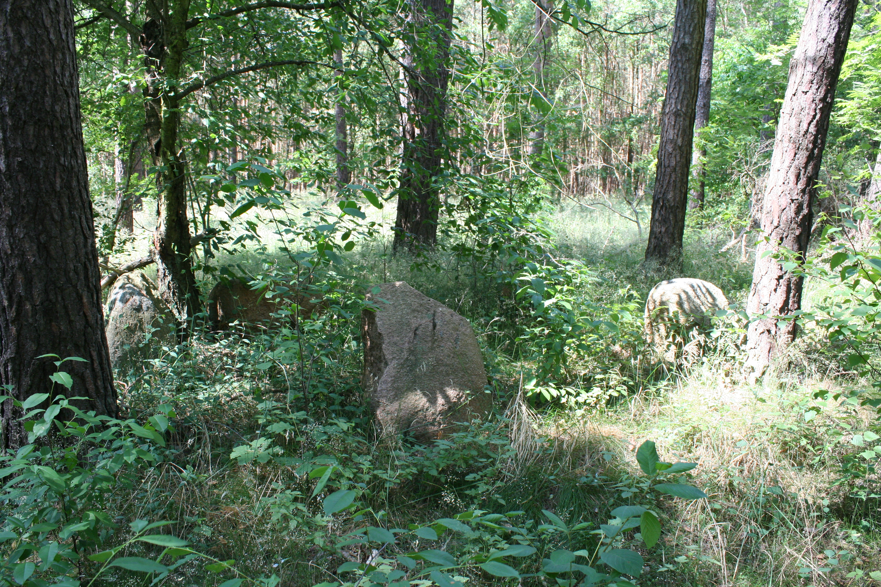 Megalithic tomb Hundisburg 16